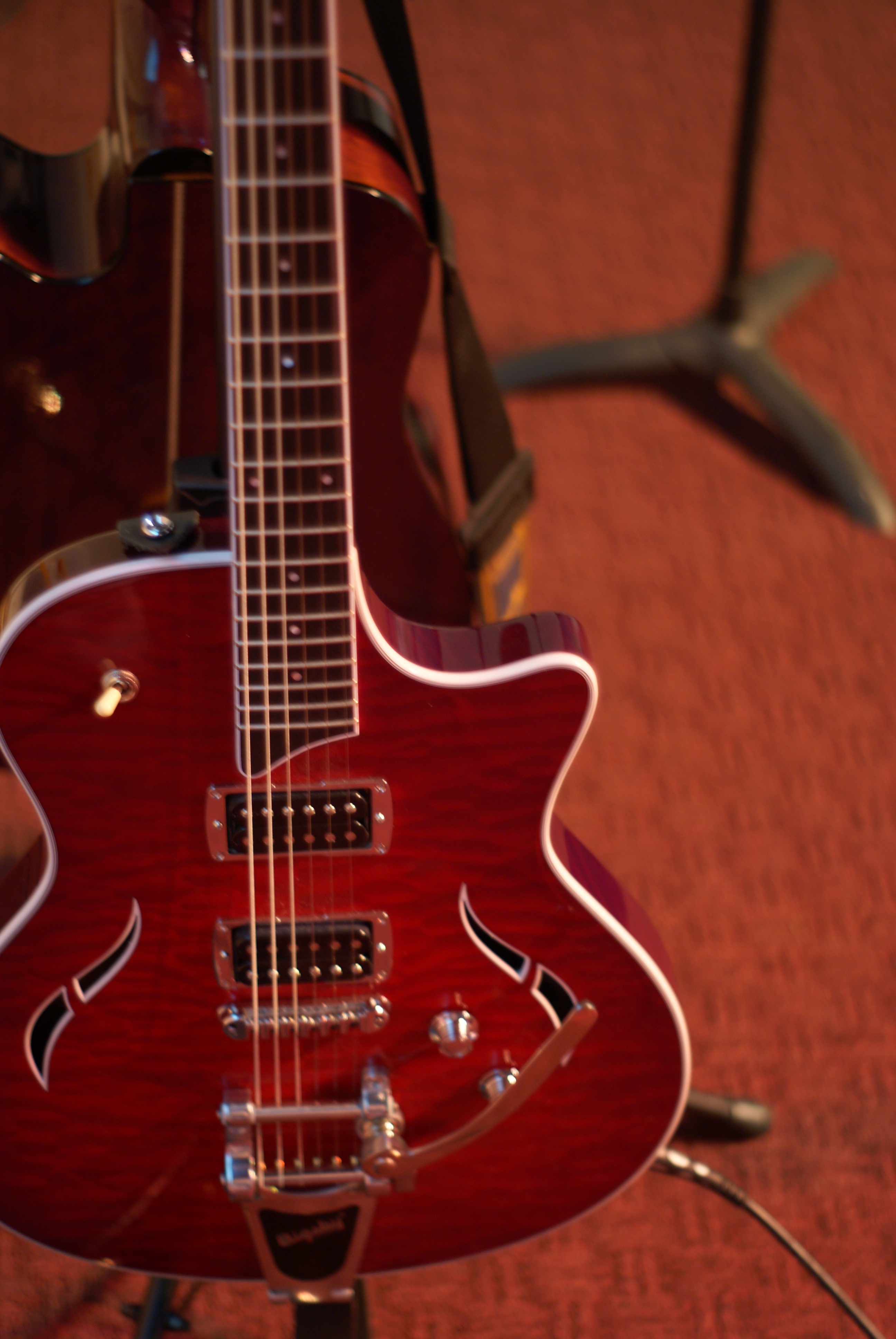 Taylor T3 Electric Guitar “red guitar” —Matt Trudeau